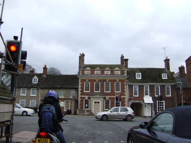 Traffic lights at Highworth town centre.